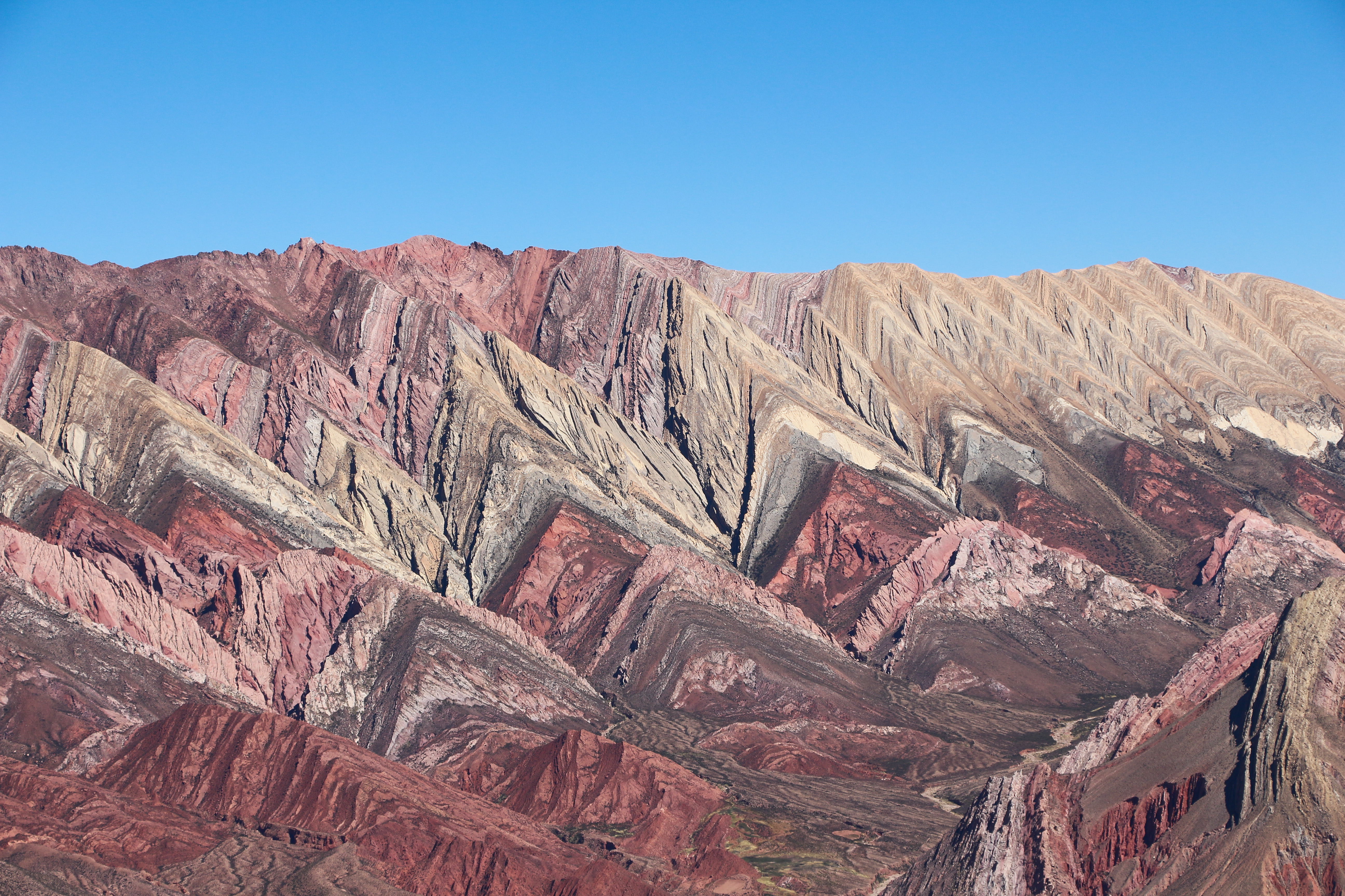 Serranía de Hornocal, province of Jujuy, Argentina